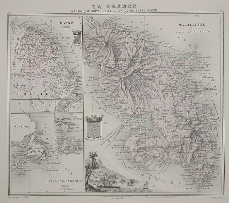 Hand-coloured map of Martinique (right), French Guiana (top left), and Saint Pierre and Miquelon (bottom left). An illustration of Fort-de-France is shown at the lower centre of the map.